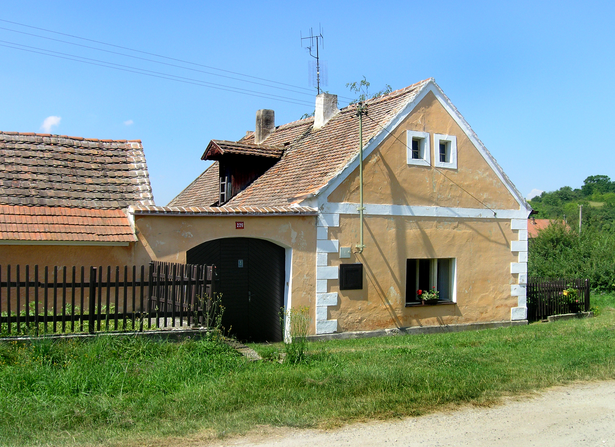 Old farm in Podolí, Part of Mšené-lázně village, Czech Republic